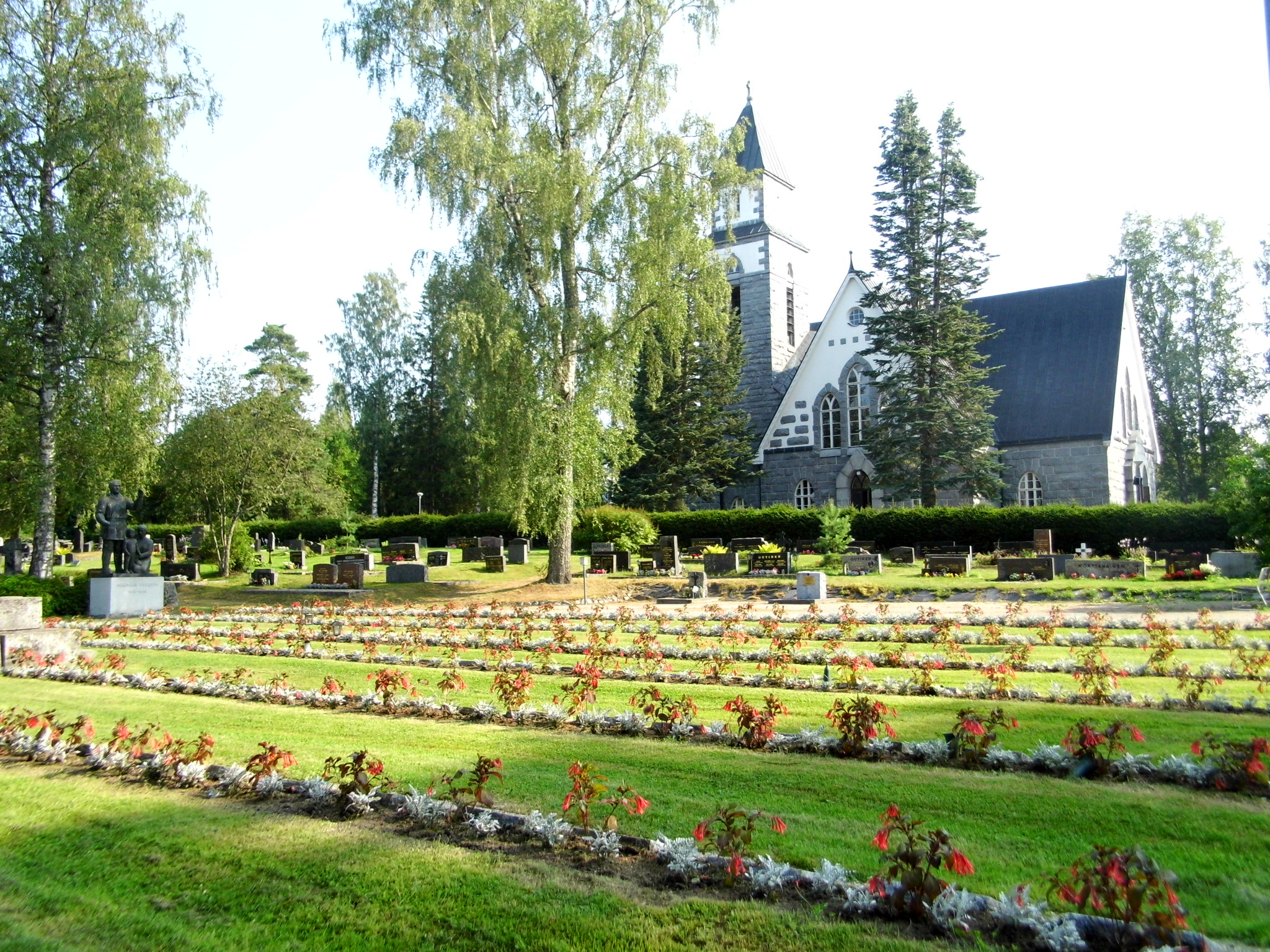 Military cemetary at church in Hirvensalmi, Finland